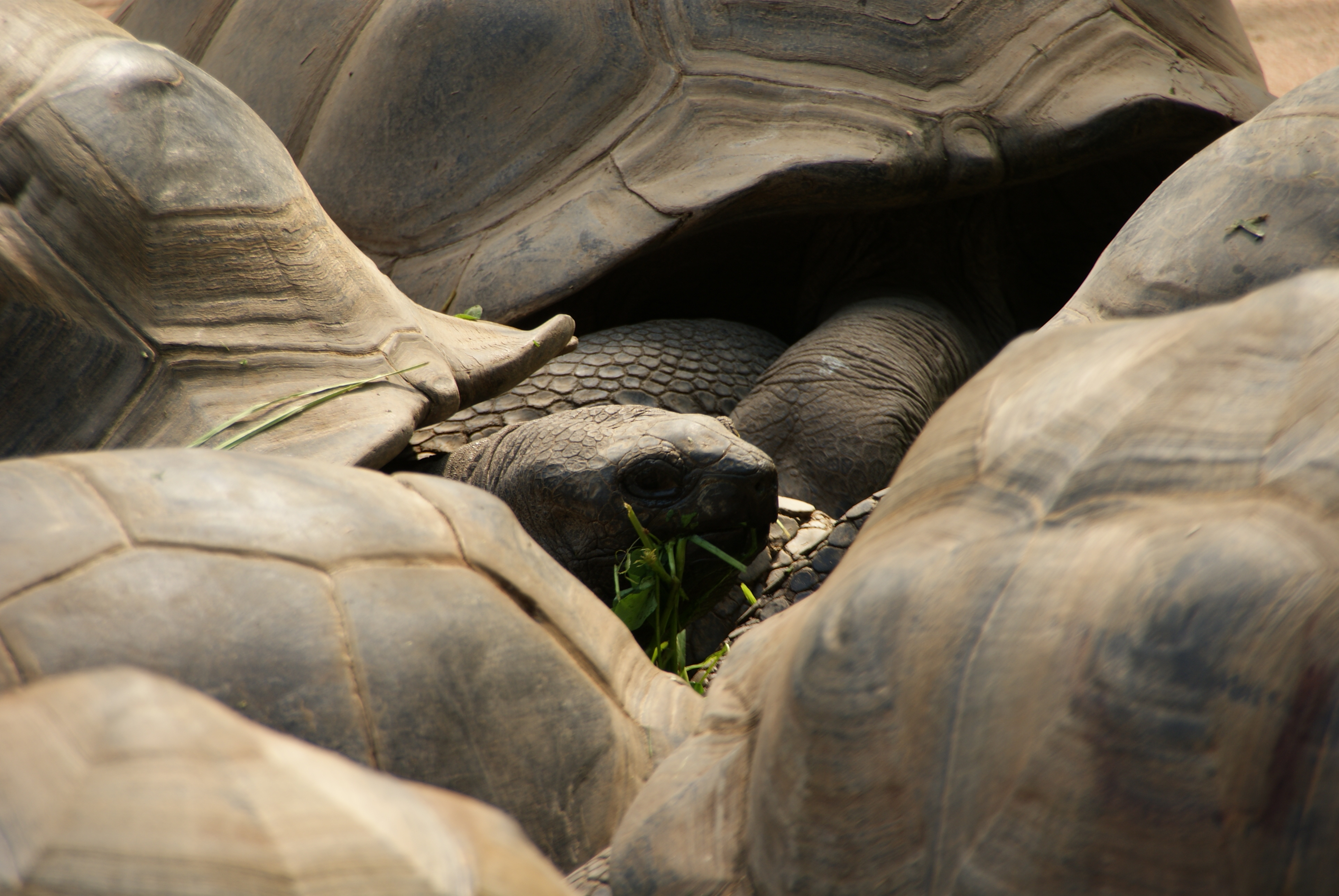 Dipsochelys at Tierpark Hellabrunn, Munich